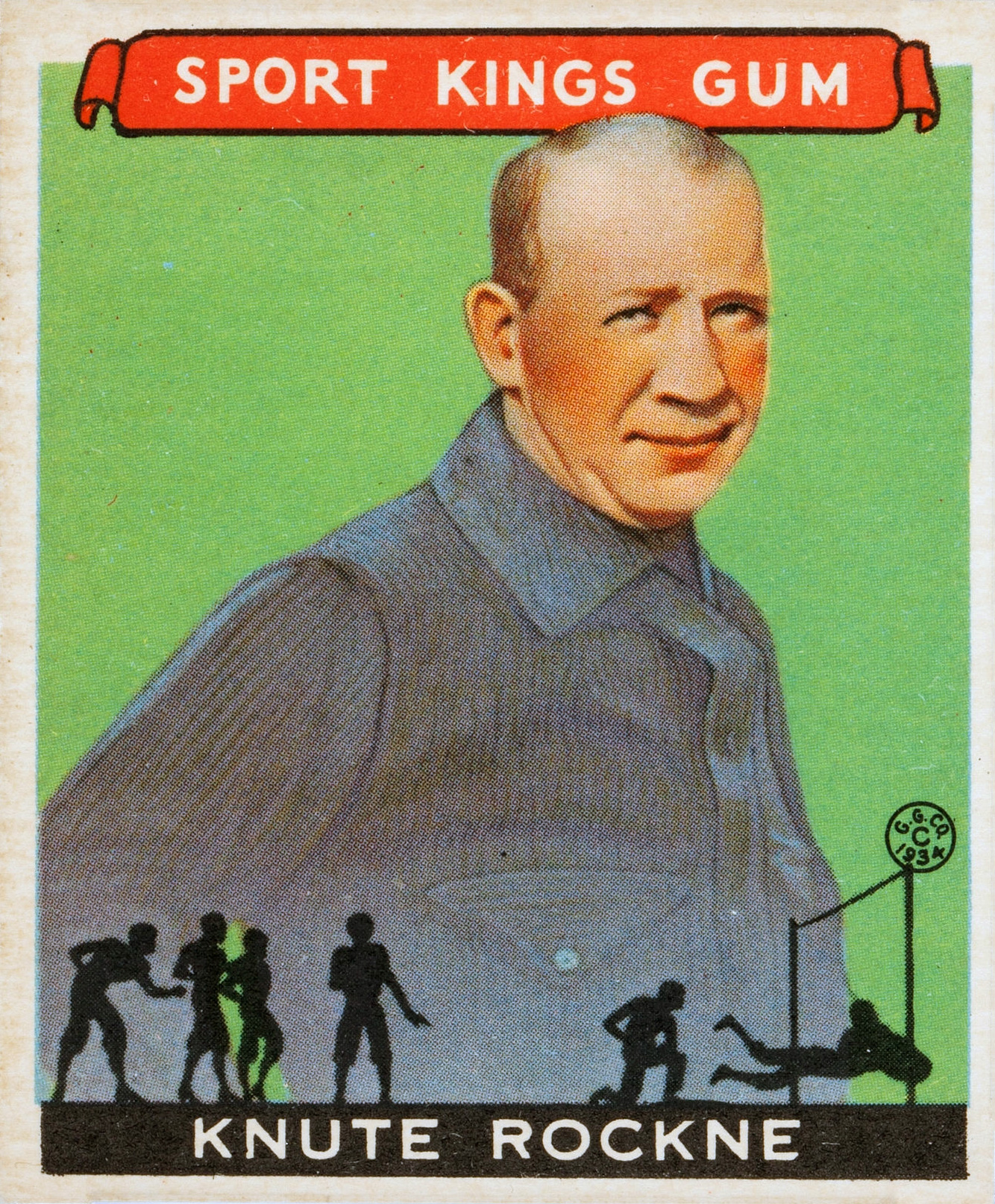 1933 Goudey Sport Kings football card of Knute Rockne of Notre Dame #35. PD-not-renewed.